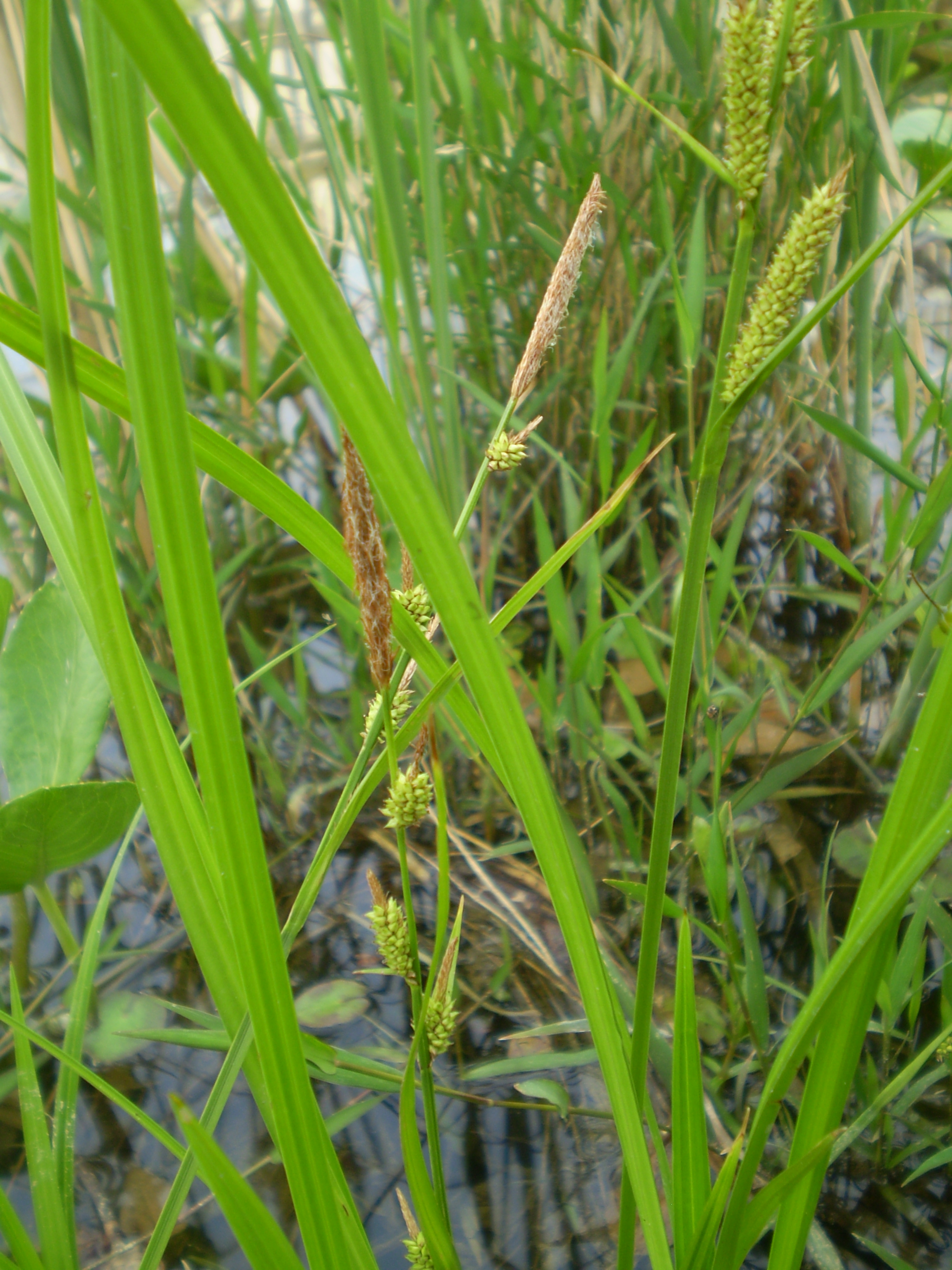 Carex dispalata(Kasasuge)